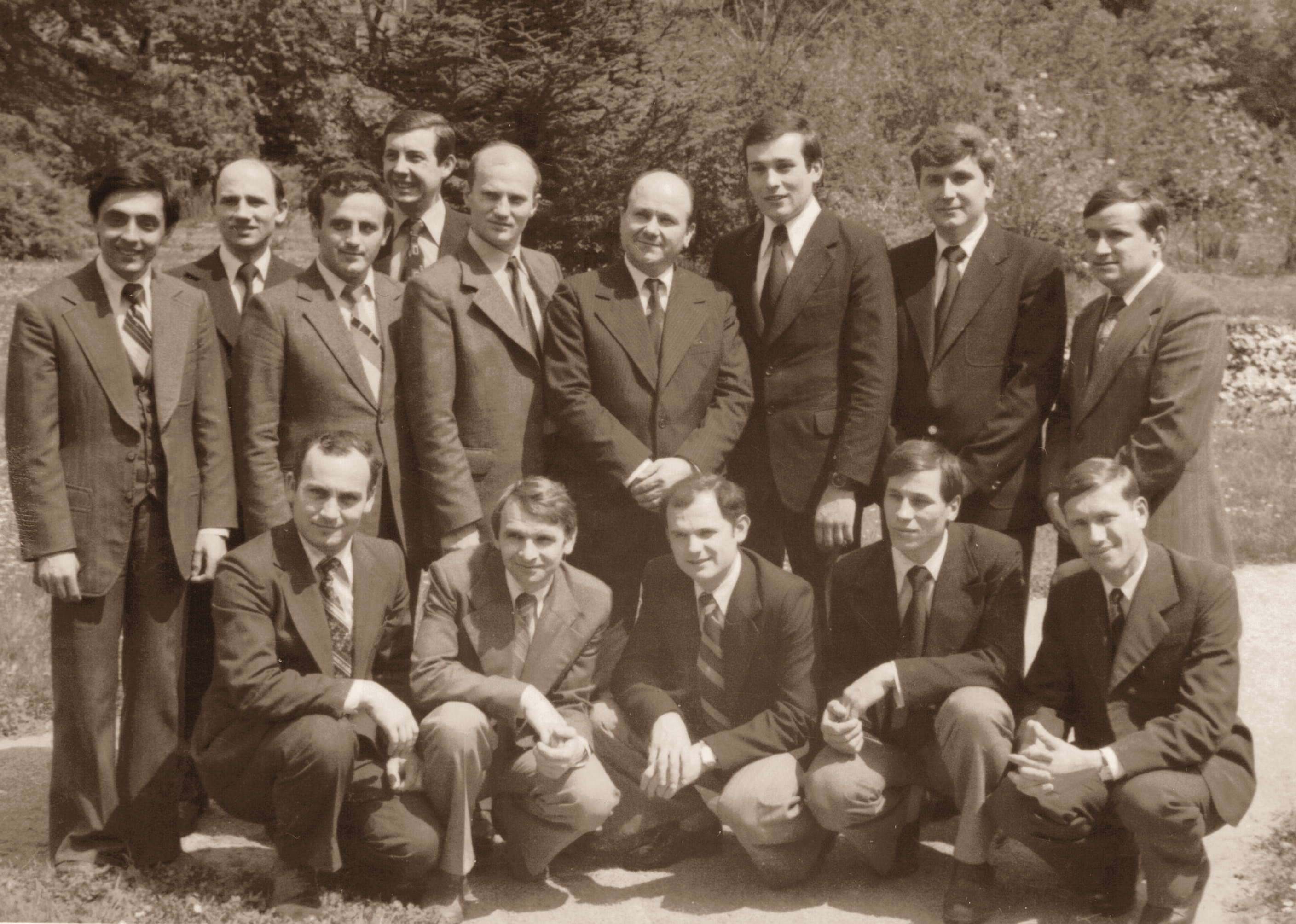 Prima Generație a Seminarului teologic penticostal din București